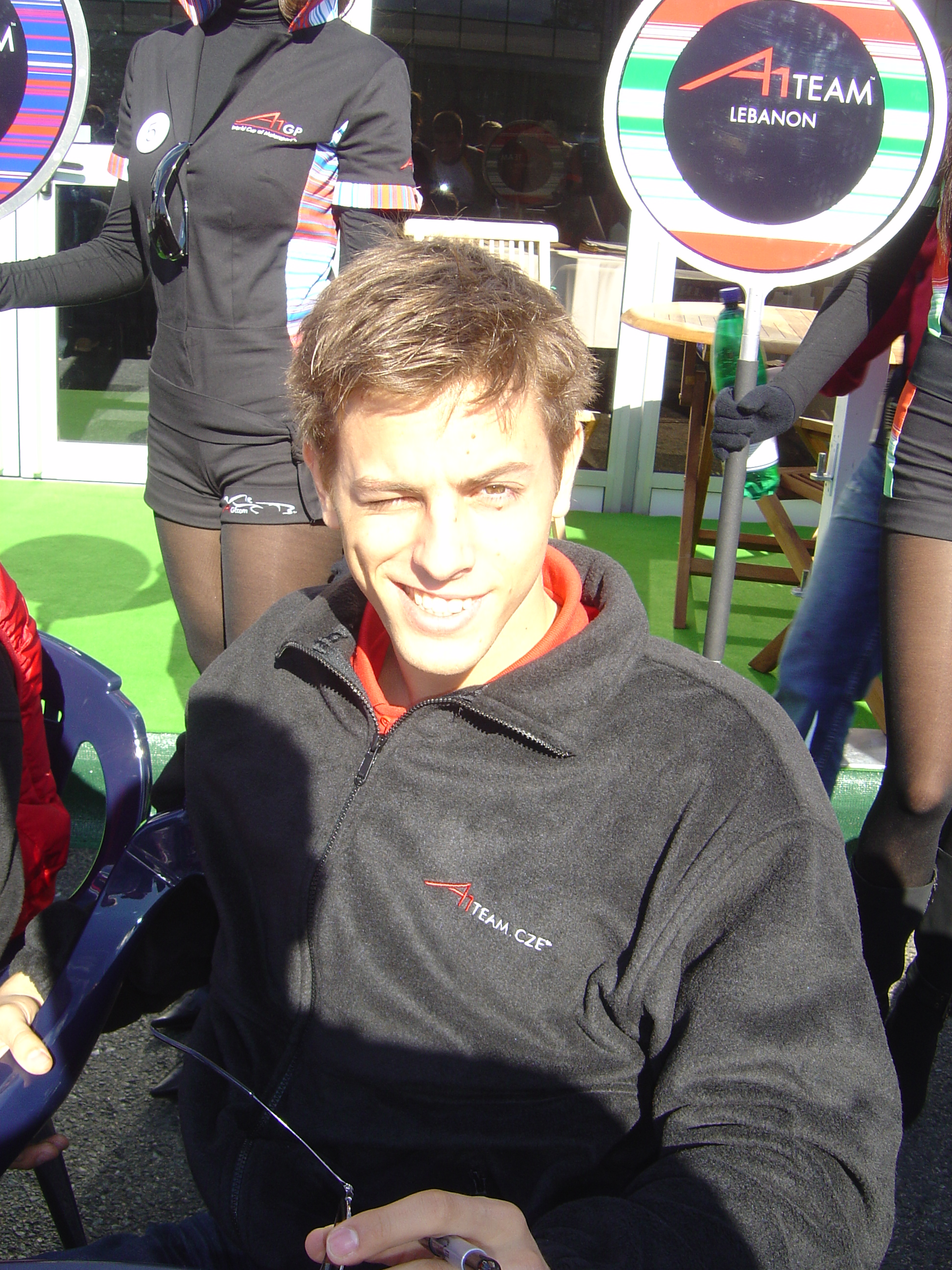 Jan Charouz: the photo was taken during 2007's A1GP race weekend at Brno